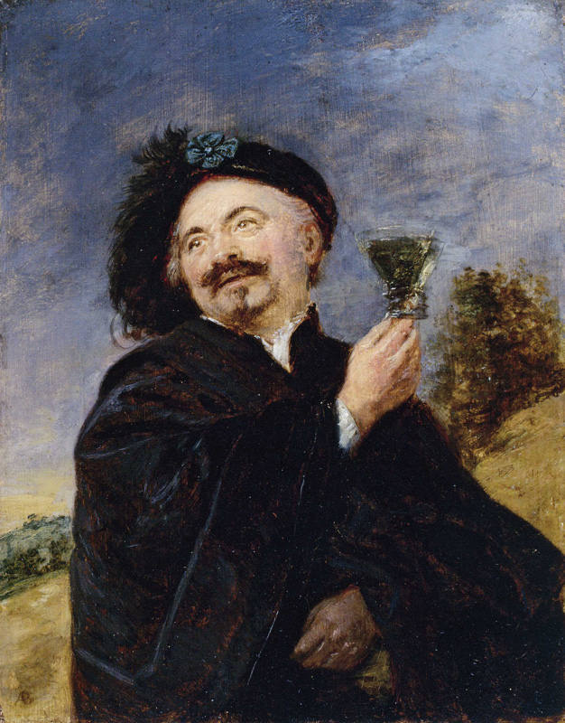 Adriaen Brouwer A Drinker 25 x 19 cm Oil on wood Musée d'Arts de Nantes